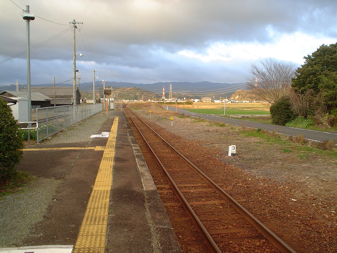 Ise-kawaguchi Station in Mie pref, japan